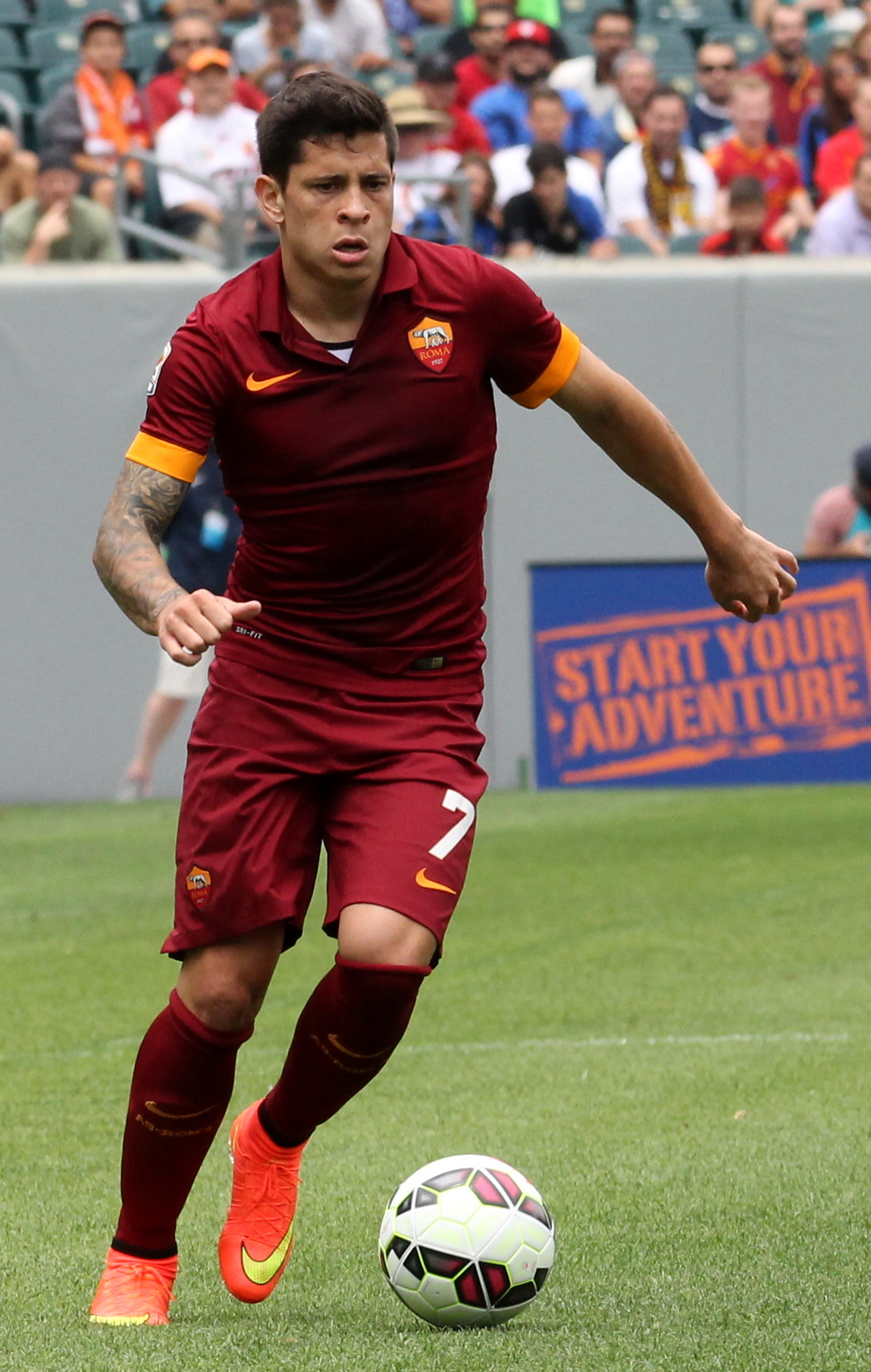 Juan Manuel Iturbe playing for AS Roma in pre-season friendly against Inter Milan in International Champions Cup in 2014.